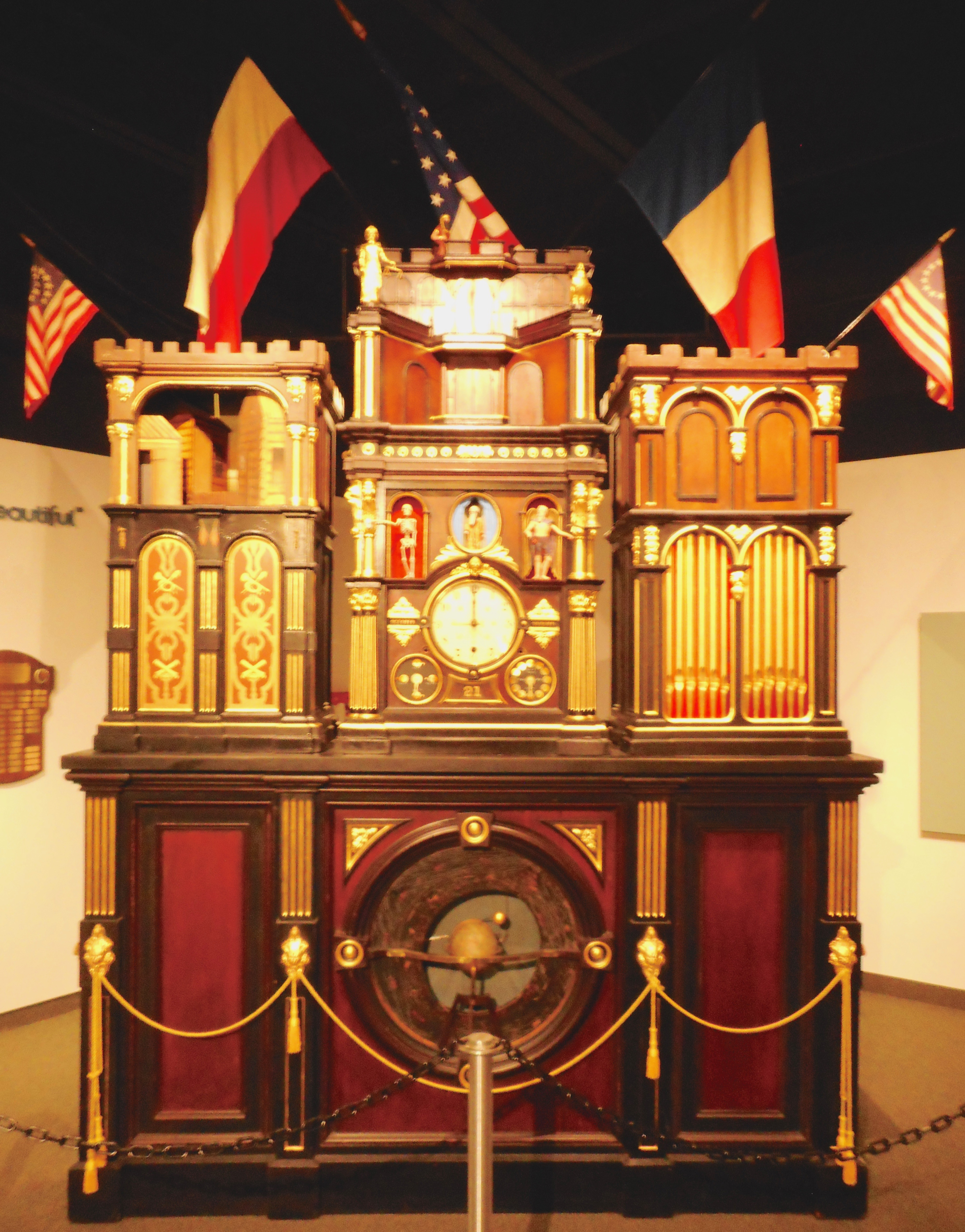 The monumental Engle clock in the National Watch and Clock Museum, Columbia, Lancaster County, Pennsylvania